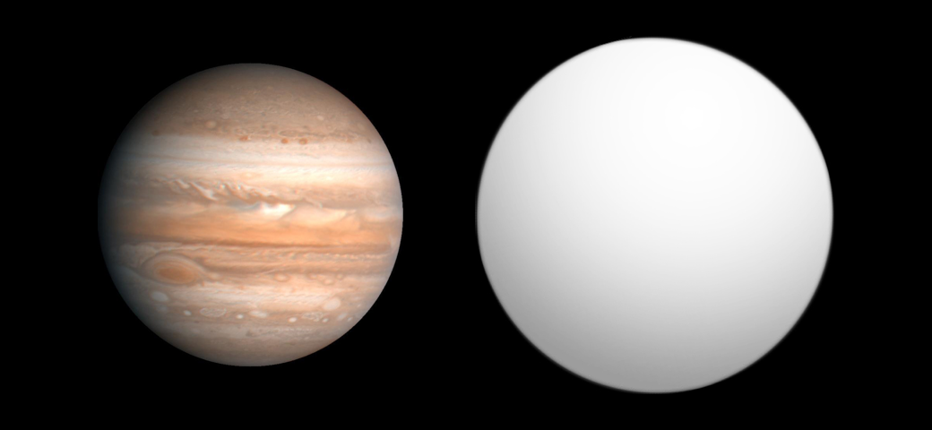 Comparison of best-fit size of the exoplanet WASP-5 b with the Solar System planet Jupiter, as reported in the Open Exoplanet Catalogue[1] as of 2010-09-30. ↑ Open Exoplanet Catalogue (2010-09-30). Retrieved on 2010-09-30.